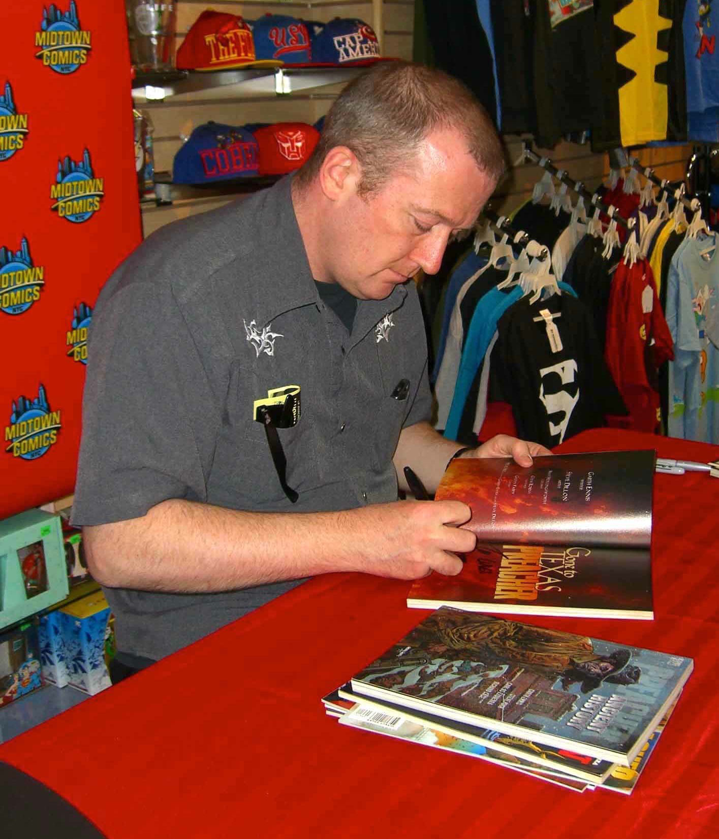 Writer Garth Ennis at an April 19, 2012 signing for The Shadow (volume 5) #1 at Midtown Comics Downtown in Manhattan. This photo was created by Luigi Novi. It is not in the public domain, and use of this file outside of the licensing terms is a copyright violation.